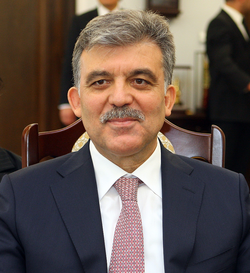 President of Turkey Abdullah Gül in the Polish Senate